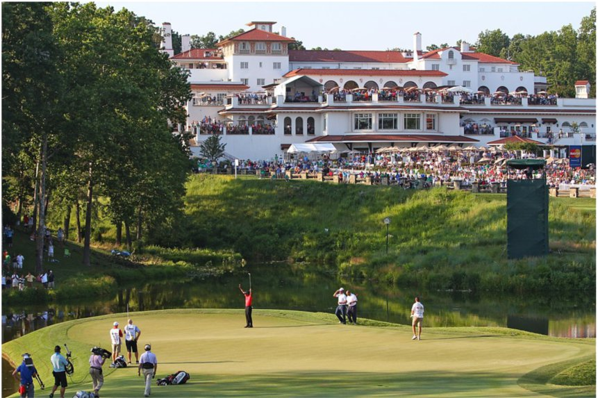 A photograph of Tiger Woods sealing his 74th all-time PGA tour victory at the AT&T National in Bethesda has brought VOA’s Bill Workinger a win of his own. The Society of Professional Journalists (SPJ) presented Workinger the prestigious Dateline Award for local journalism at a ceremony at the National Press Club on June 11. “It was an opportunity a photographer dreams about,” Workinger said. “An historic moment, unrestricted access, and a vantage point not selected by any other photographer. I want to thank the SPJ for recognizing this image and the Voice of America.” Workinger’s photo from the 2012 AT&T National was shown on a Sonny Side of Sports segment on VOA’s In Focus television show. Workinger is a multimedia broadcast specialist for the English to Africa Service, but his photographic coverage of events is entirely self-initiated. “It’s a talent that I think I have, but it’s also an extra skill that I’m adding to my current job,” he said. The winning photo was the first he ever submitted to a contest. Workinger’s win came just days after VOA reporters received three AP awards at the Chesapeake AP Broadcasters Association’s annual awards banquet.